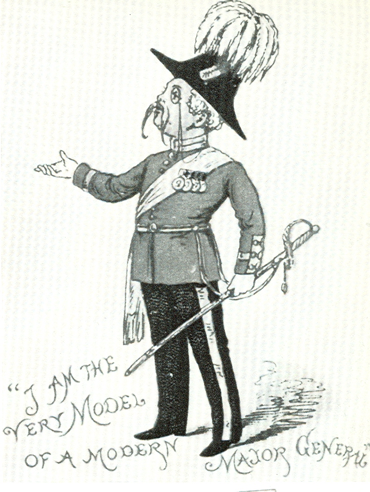 Drawing of the Major General from the programme of the D'Oyly Carte Opera Company's children's production of The Pirates of Penzance, 1884